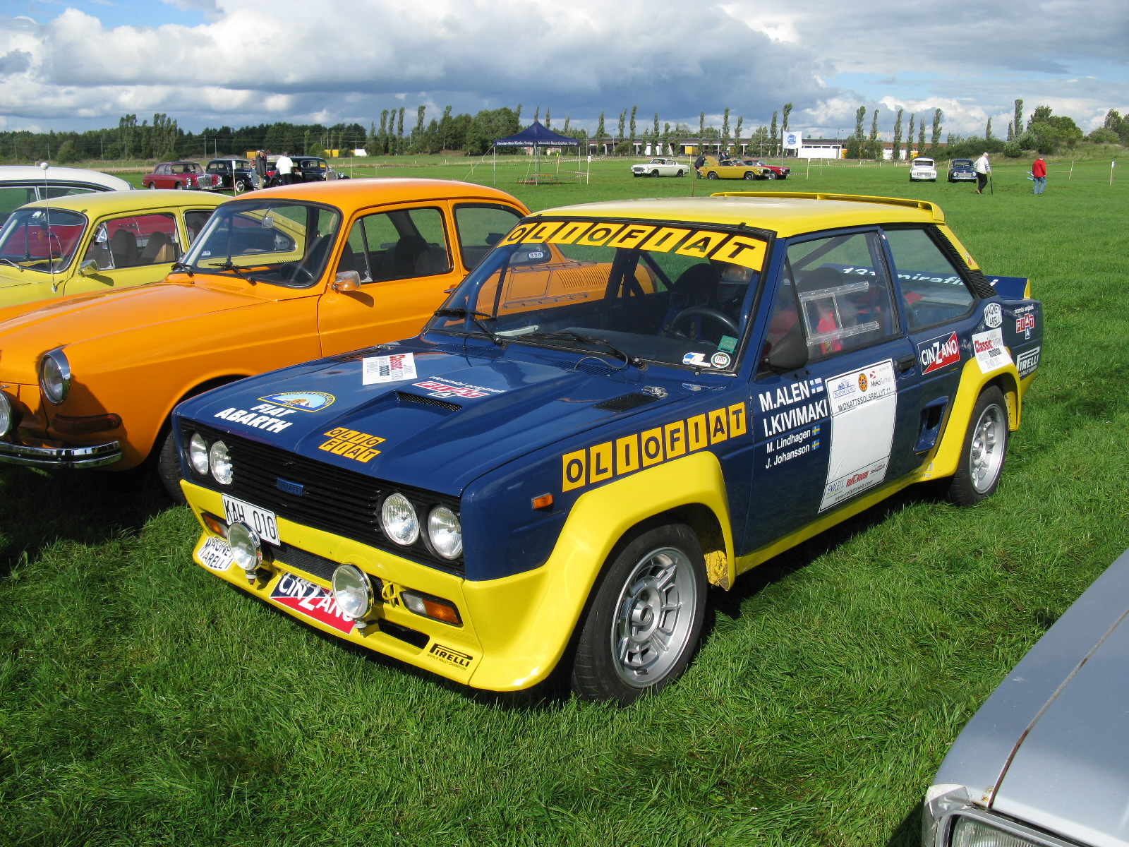 Fiat 131 Rally Replica